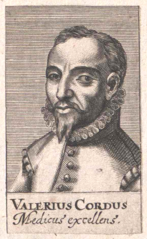 Valerius Cordus (1515–1544), German botanist, physician, pharmacologist und natural scientist